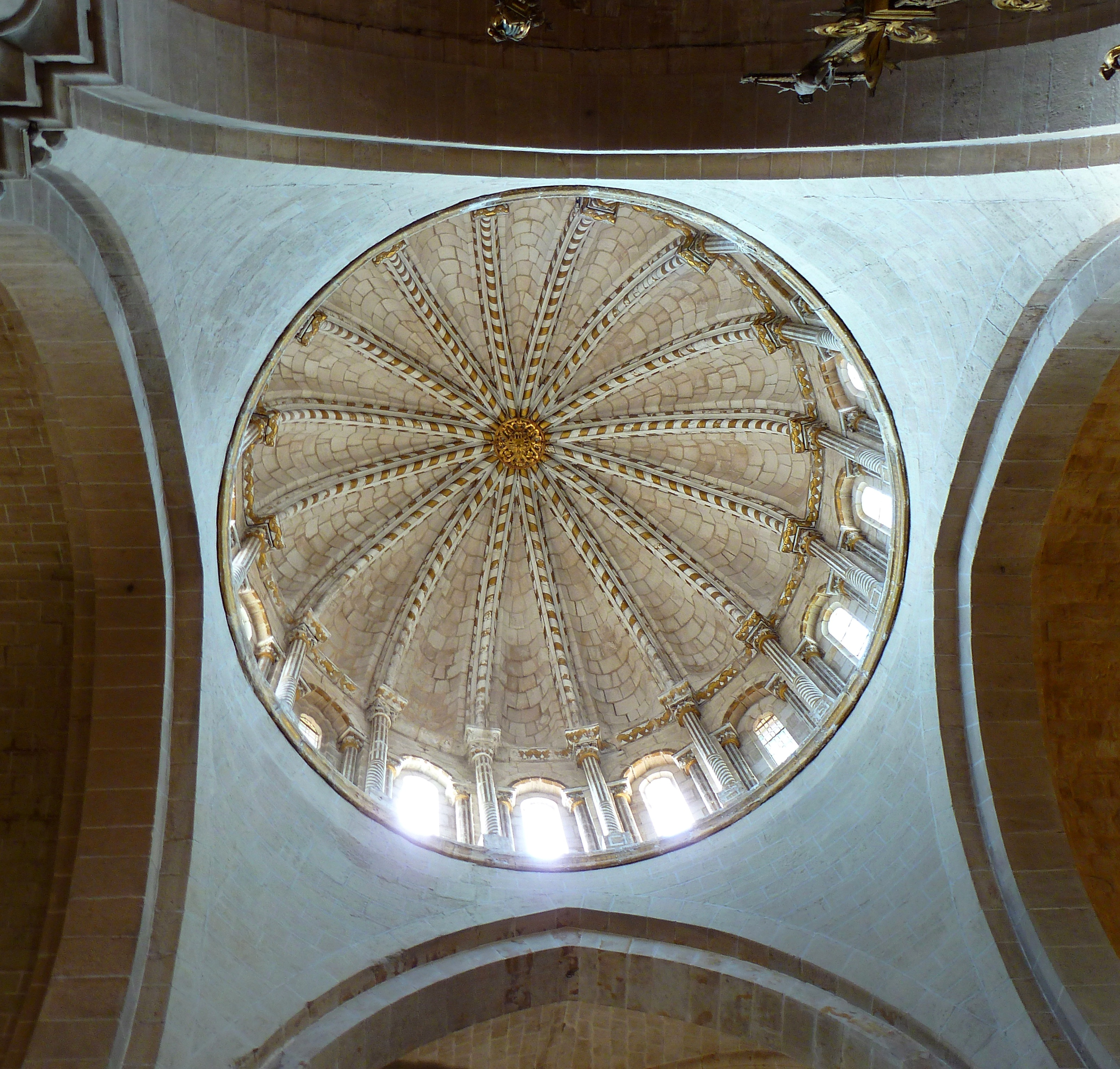 Inside view of the dome of the Cathedral of Zamora, Spain.